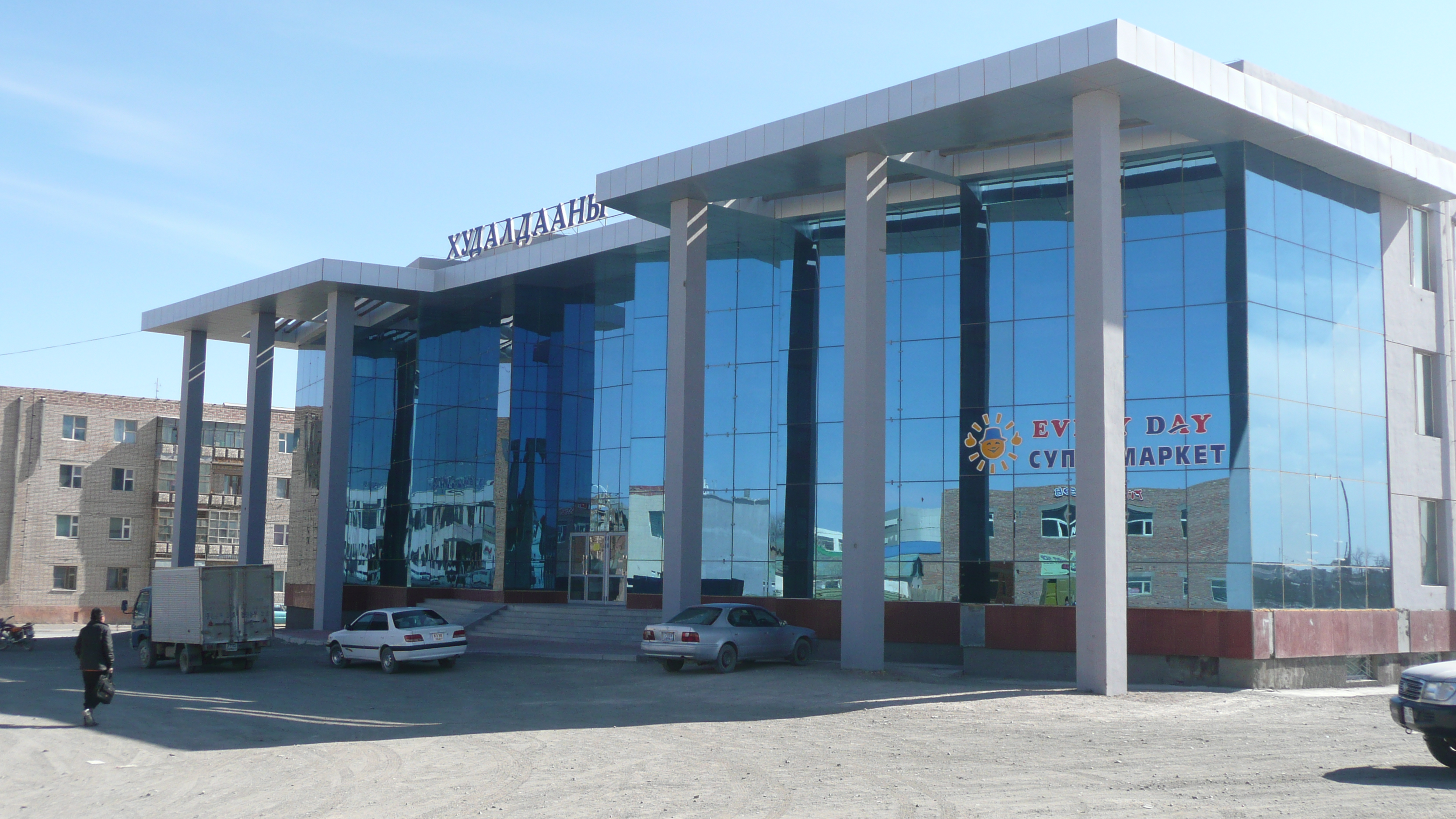 New shopping centre in Dalanzadgad